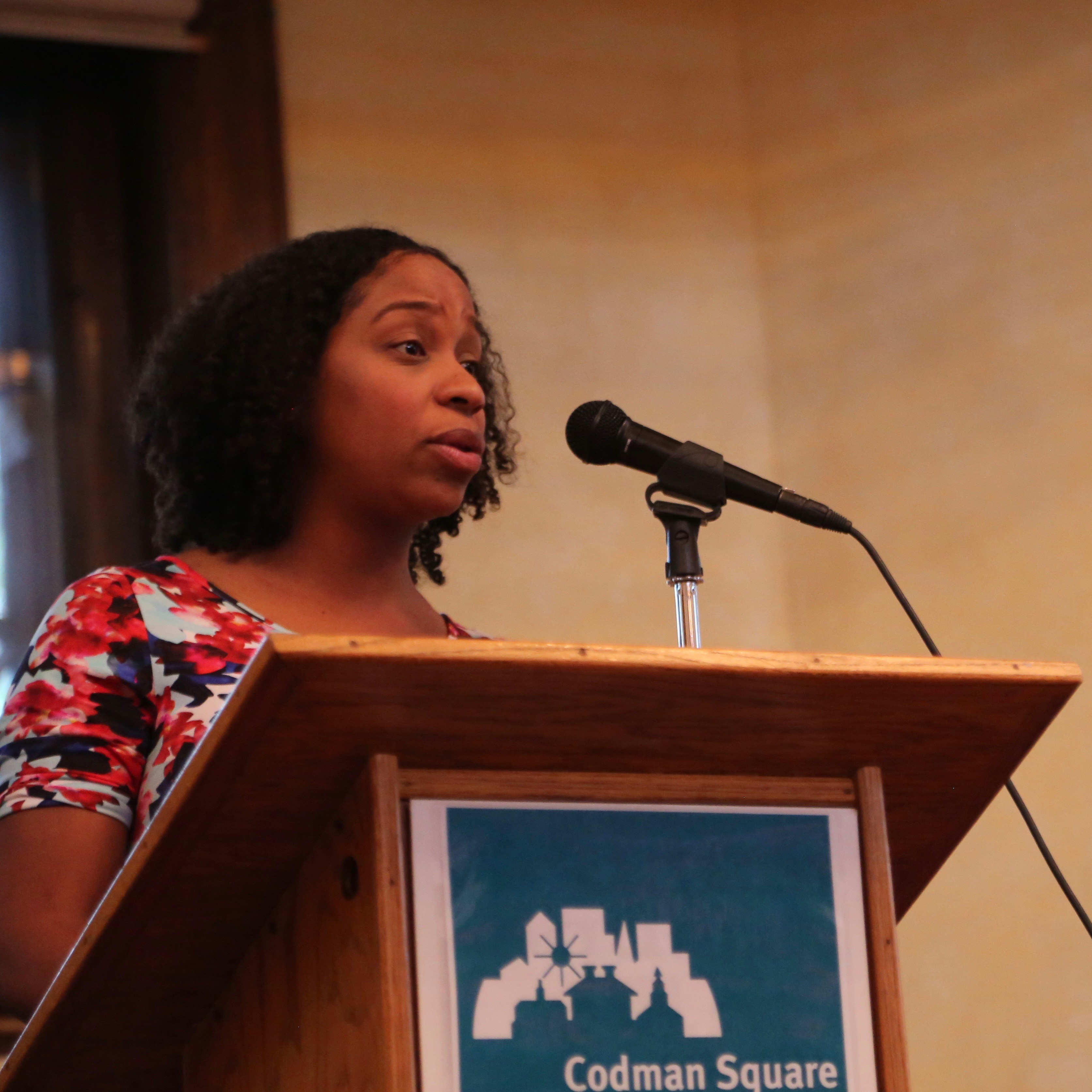 Councilor Campbell speaking a the Codman Square Great Hall in Dorchester, MA